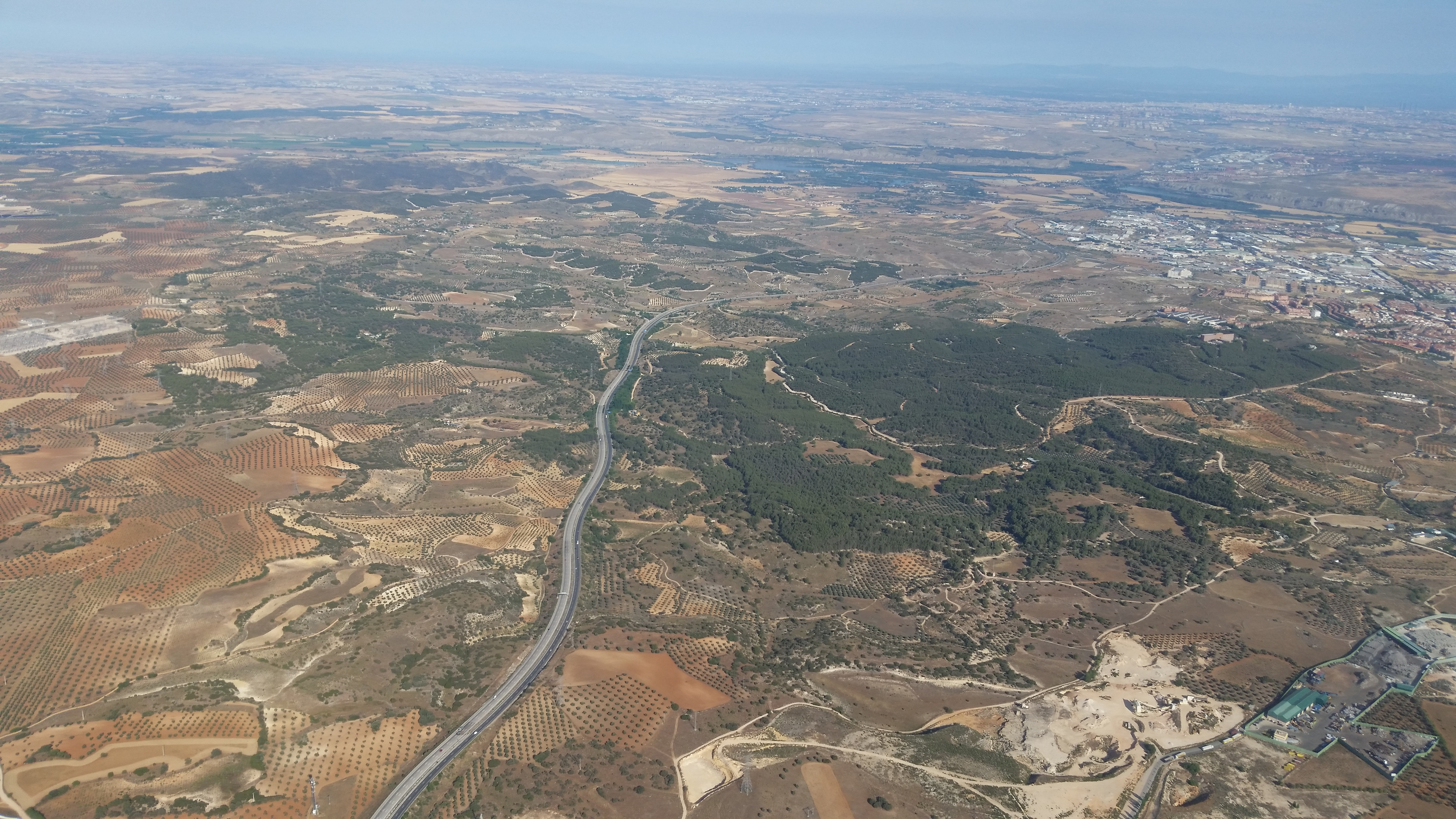 Madrid Final Approach